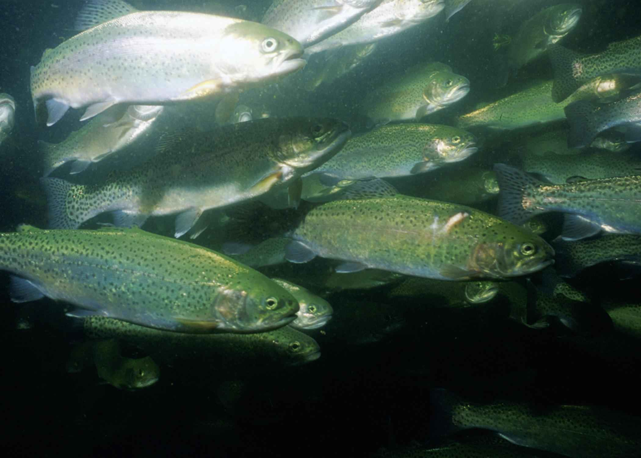 Image title: Rainbow trout fishes underwater oncorhynchus mykiss Image from Public domain images website